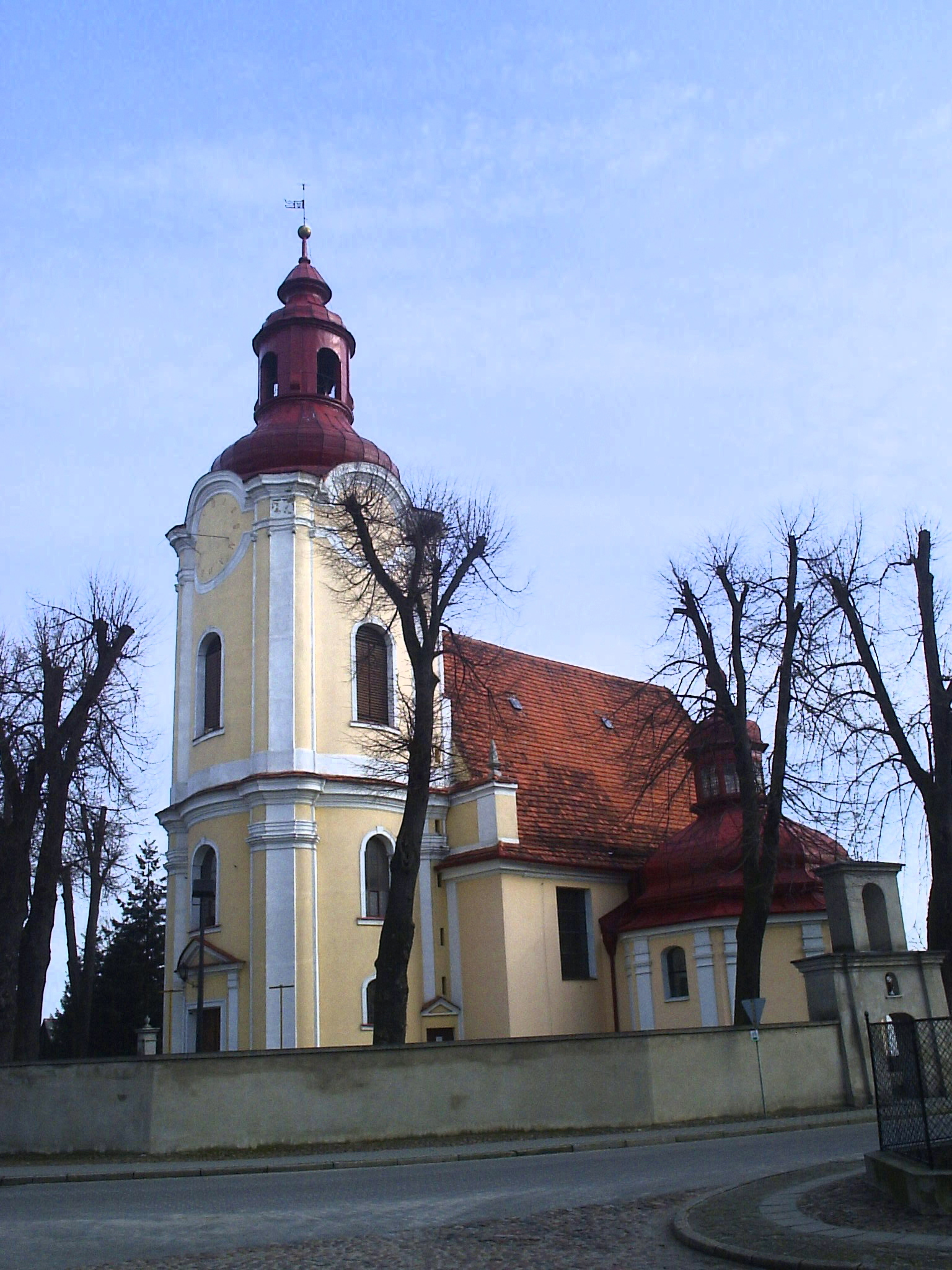 Church in Sarnowa, Poland